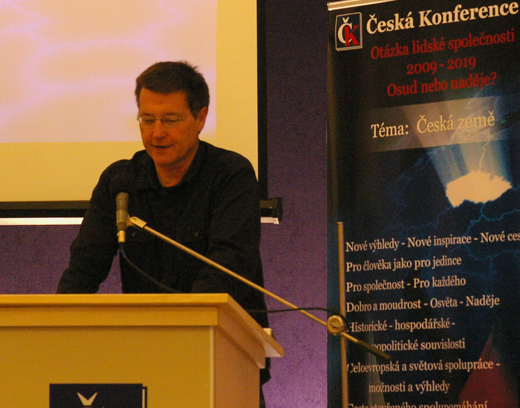 Jan Čulík Česky: Jan Čulík na České Konferenci v Poděbradech